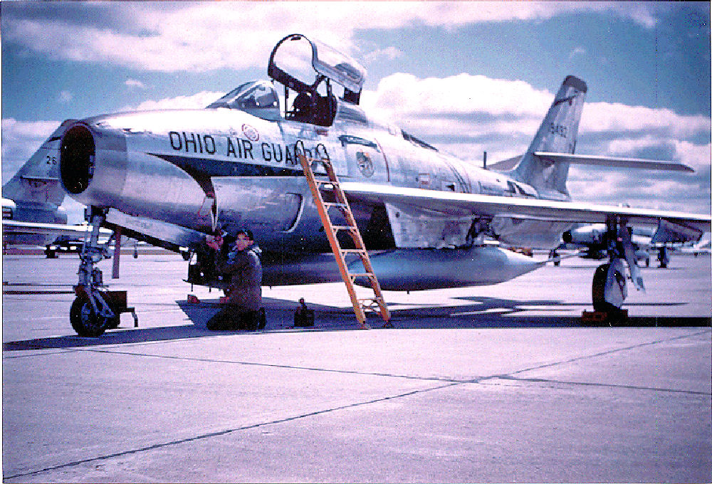 164th Tactical Fighter Squadron - General Motors F-84F-30-GK Thunderstreak 51-9432